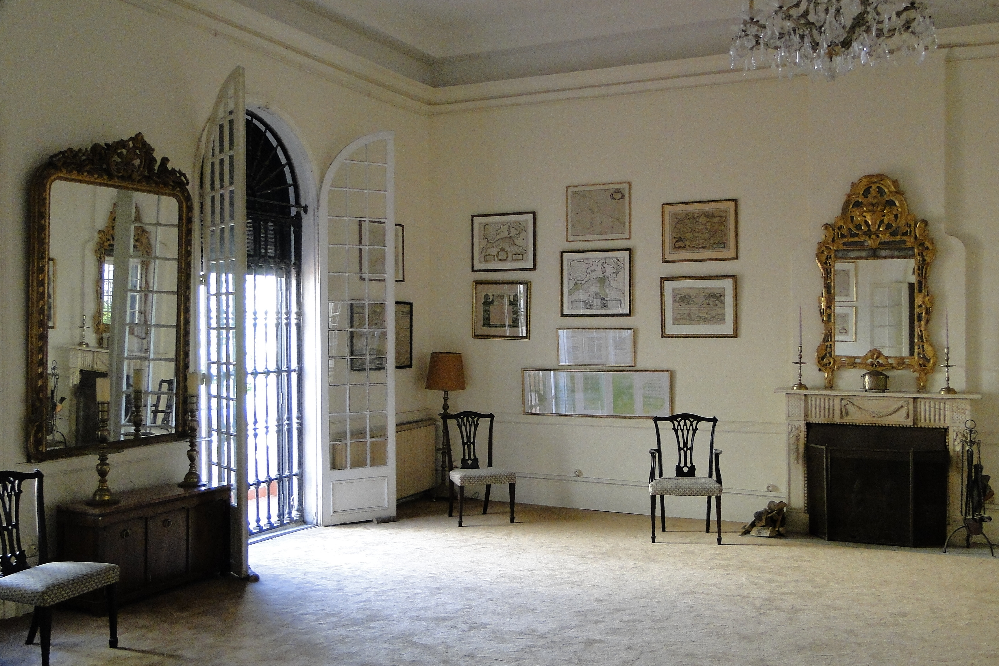 The reception room of the American Legation in Tangier, Morocco.